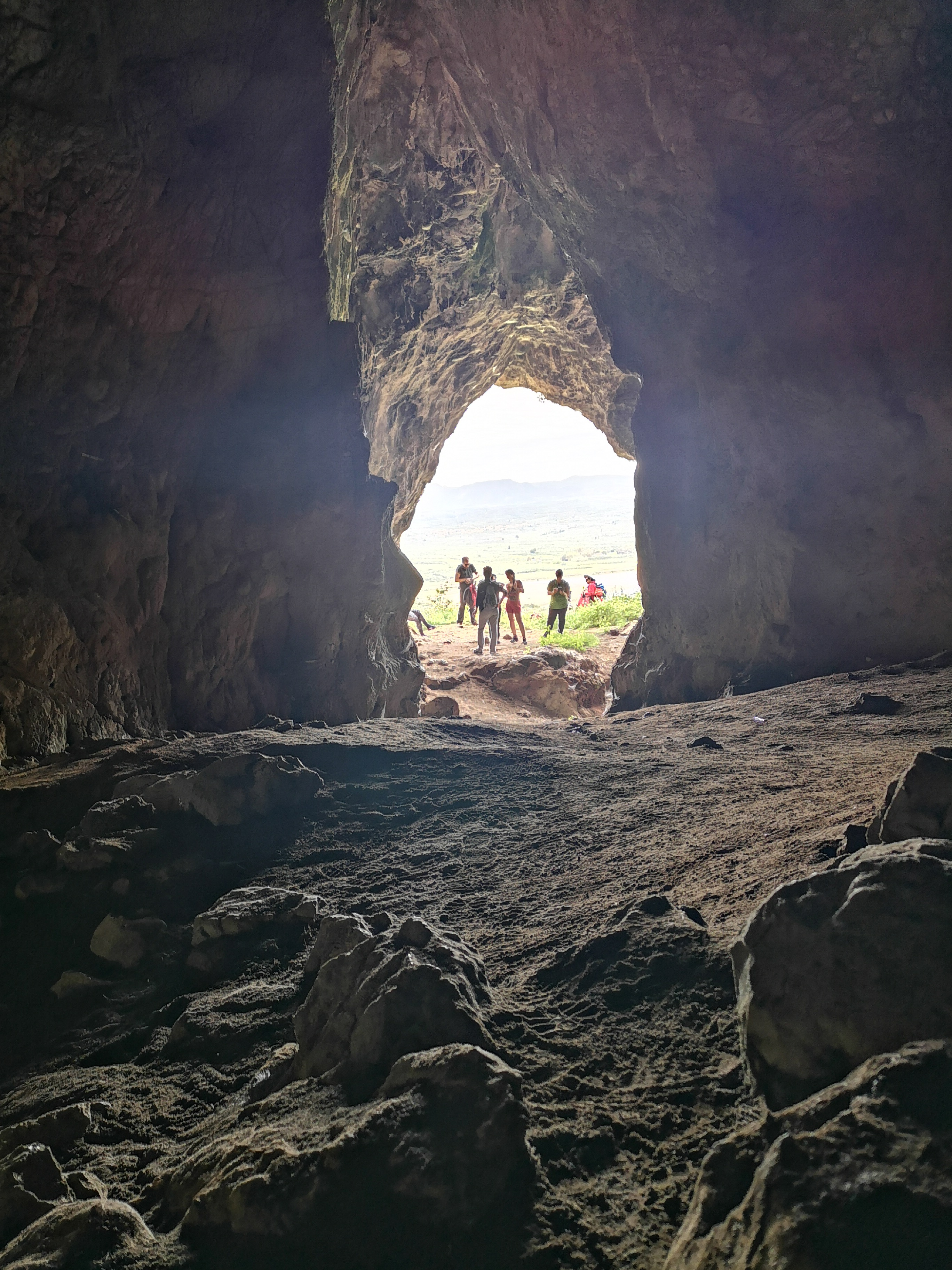 This is a photography of Natura 2000 protected area with ID GR2550008